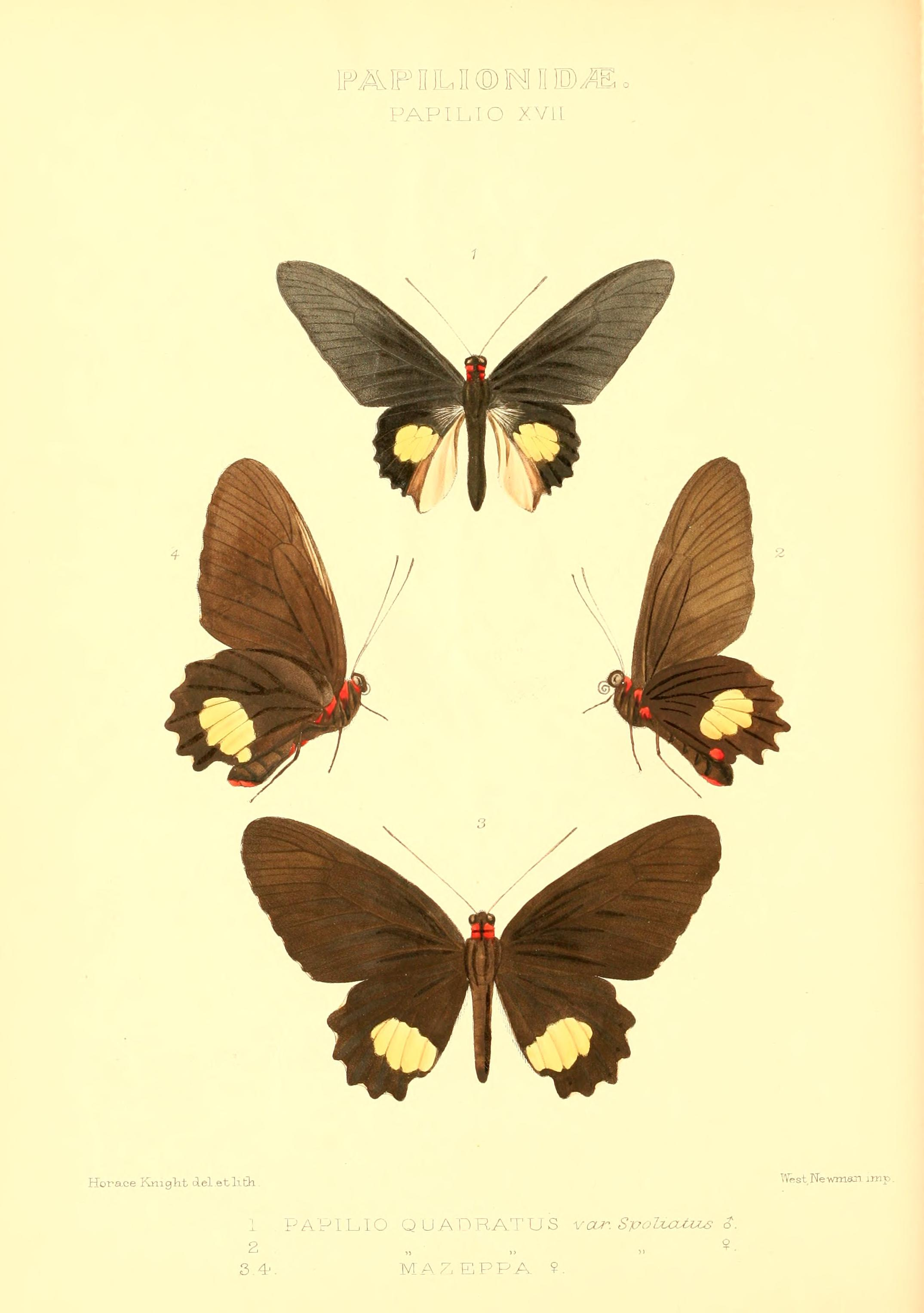 Grose-Smith, H. & Kirby, W.F. (1887-1892): Rhopalocera exotica, being illustrations of new, rare and unfigured species of butterflies London 1:x, [1-183]. Plate Papilio XVII Parides quadratus spoliatus (Staudinger, 1898) Papilio mazeppa synonym for Parides cutorina (Staudinger, 1898)